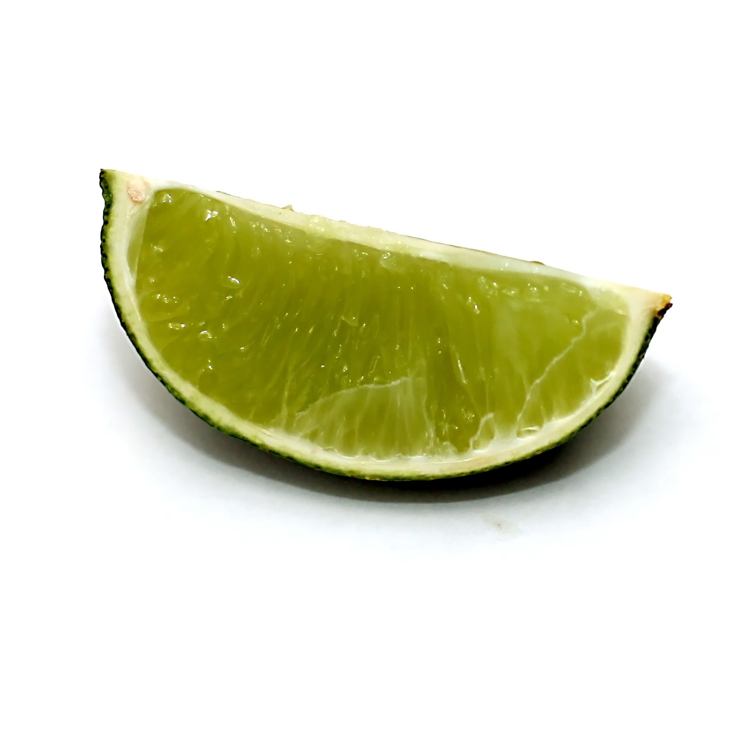 A wedge of lime